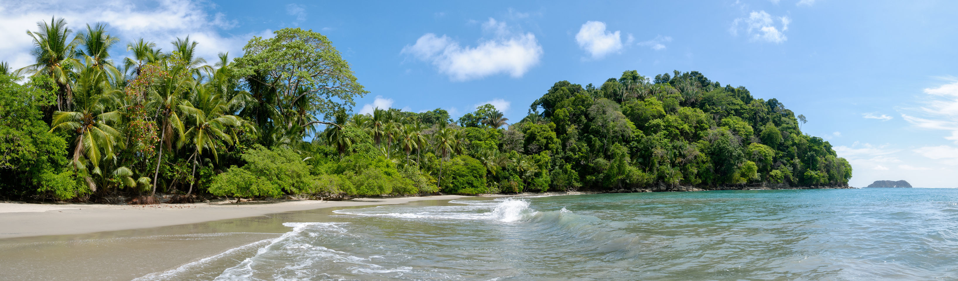 Panoramic of the Espadilla Sur beach in the Manuel Antonio National Park, Costa Rica.